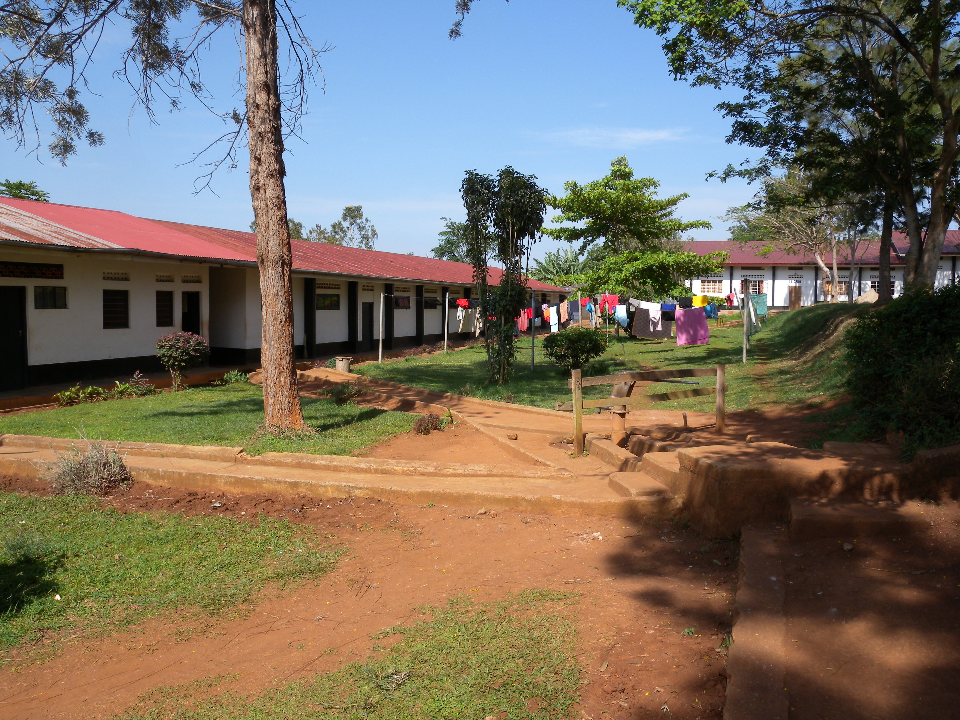 EcoSan Club Austria, 2009